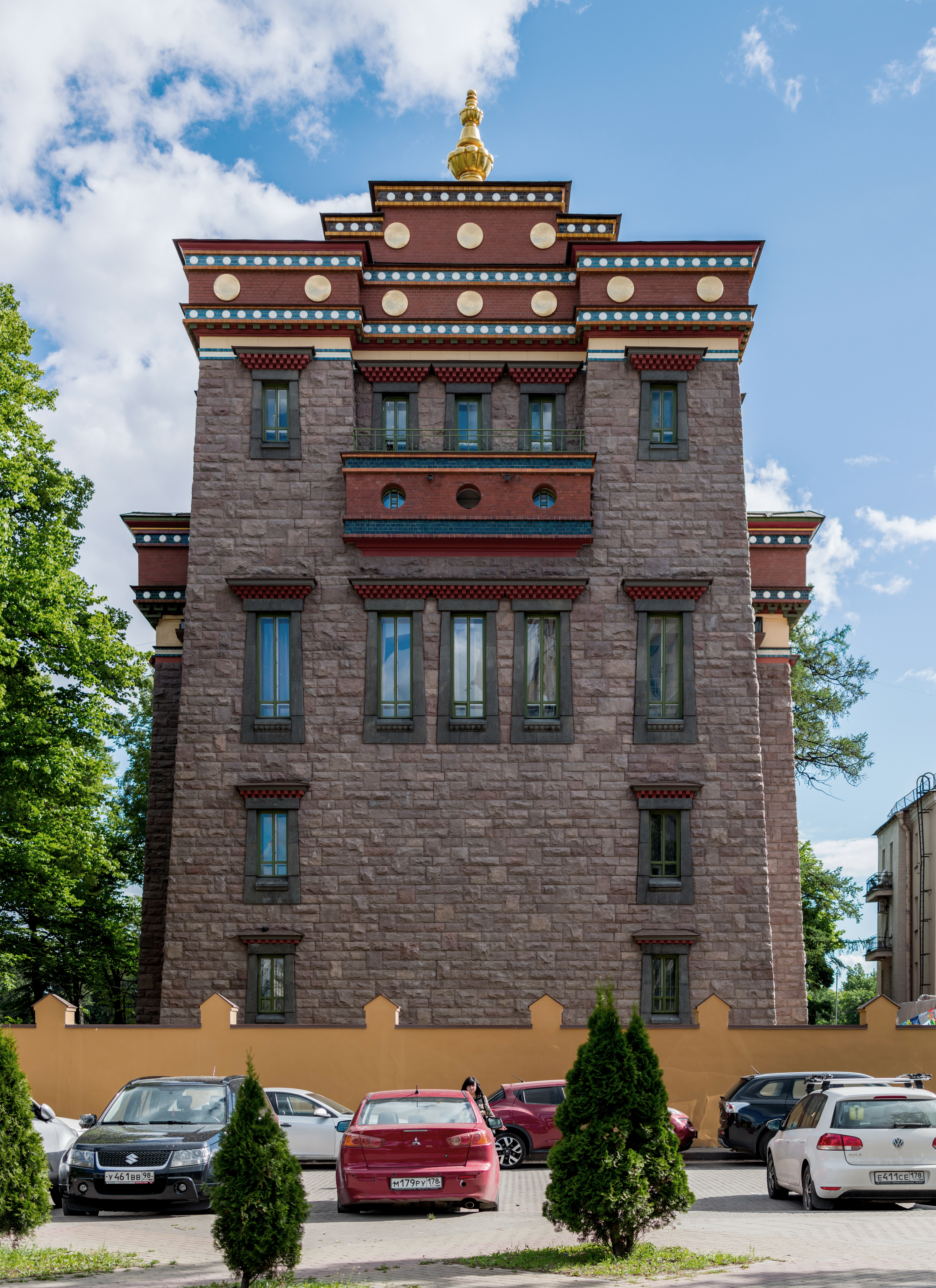 Buddhist temple Datsan Gunzechoinei in Saint Petersburg, northern facade